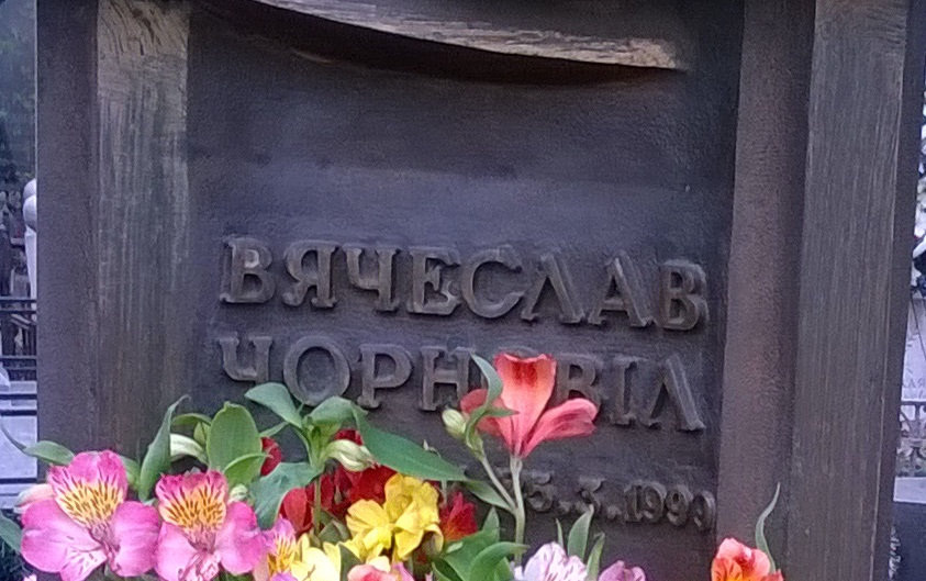 Напис на пам'ятнику Вячеславу Чорноволу. Байкове кладовище, Київ.